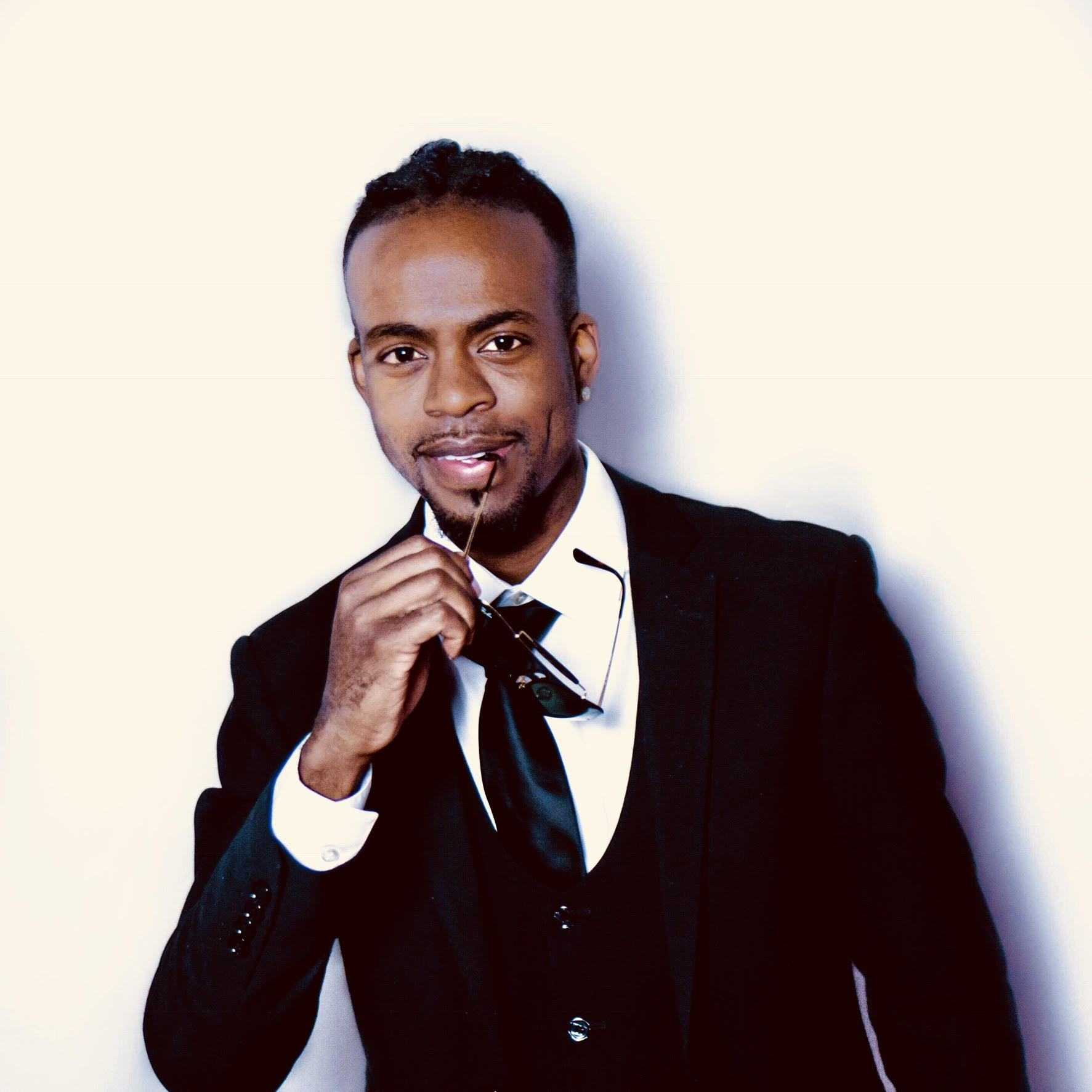 John "JonFX" Crawford, Music Producer